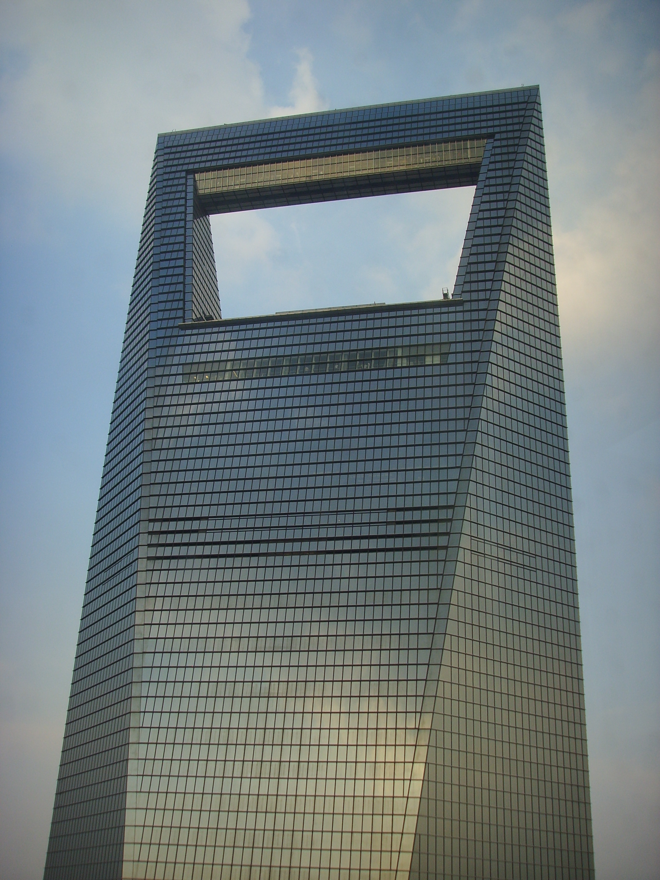 Top of Shanghai World Financial Center, seen from Jin Mao Tower